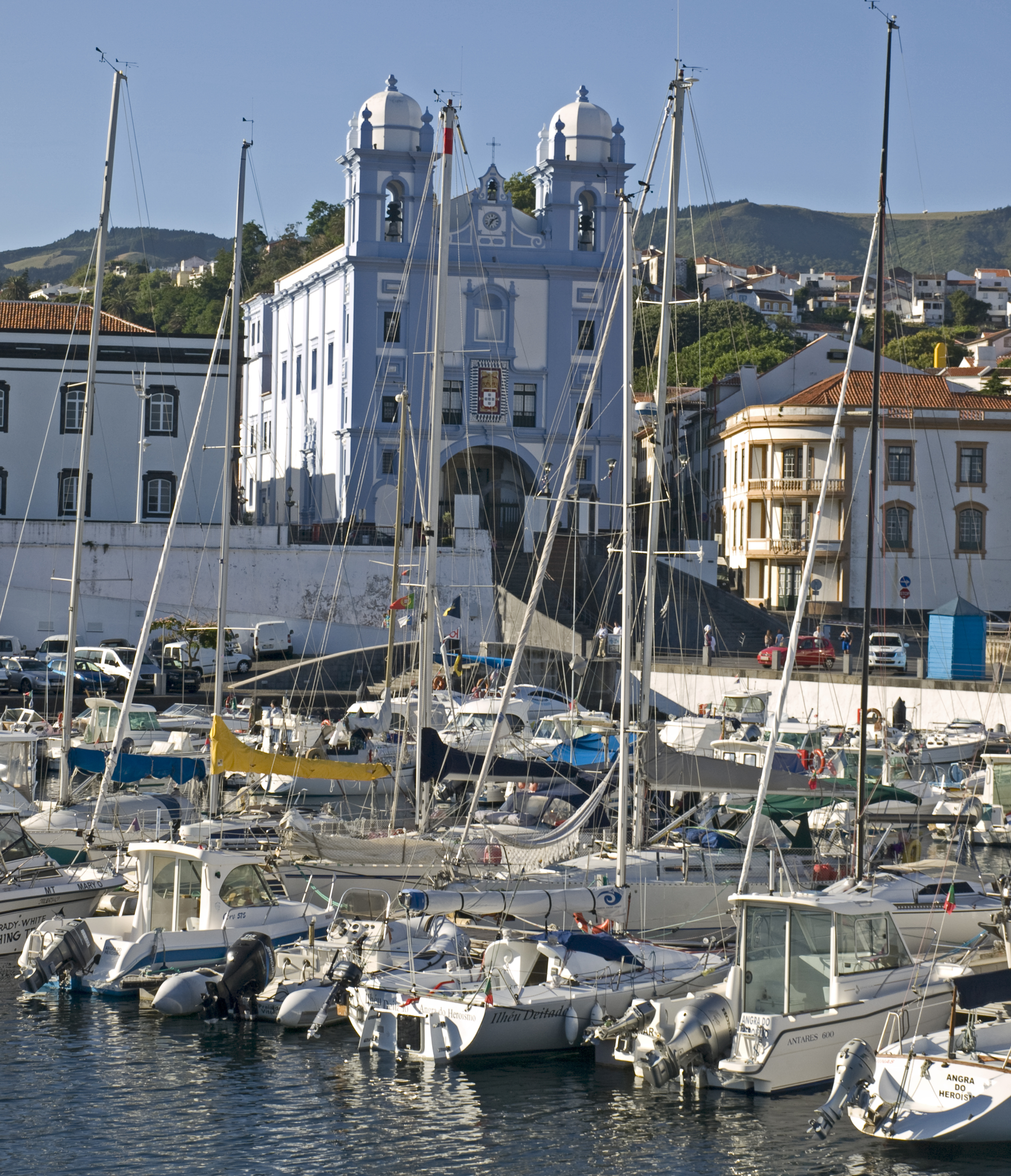 Misericórdia church, Angra do Heroismo, from the damb